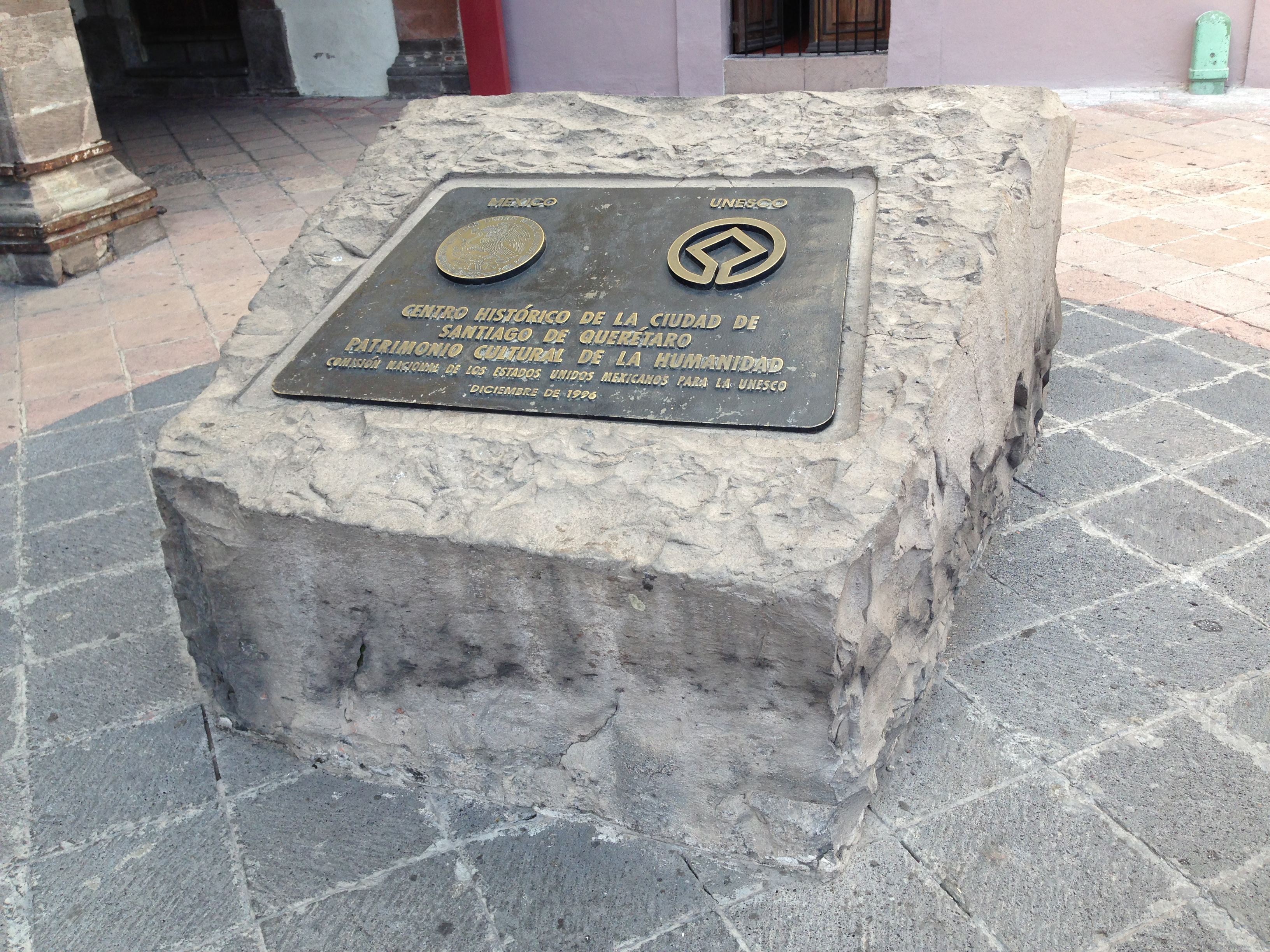 Plaque commemorating designation of Historic centre of Santiago de Queretaro as a World Heritage Site by UNESCO.